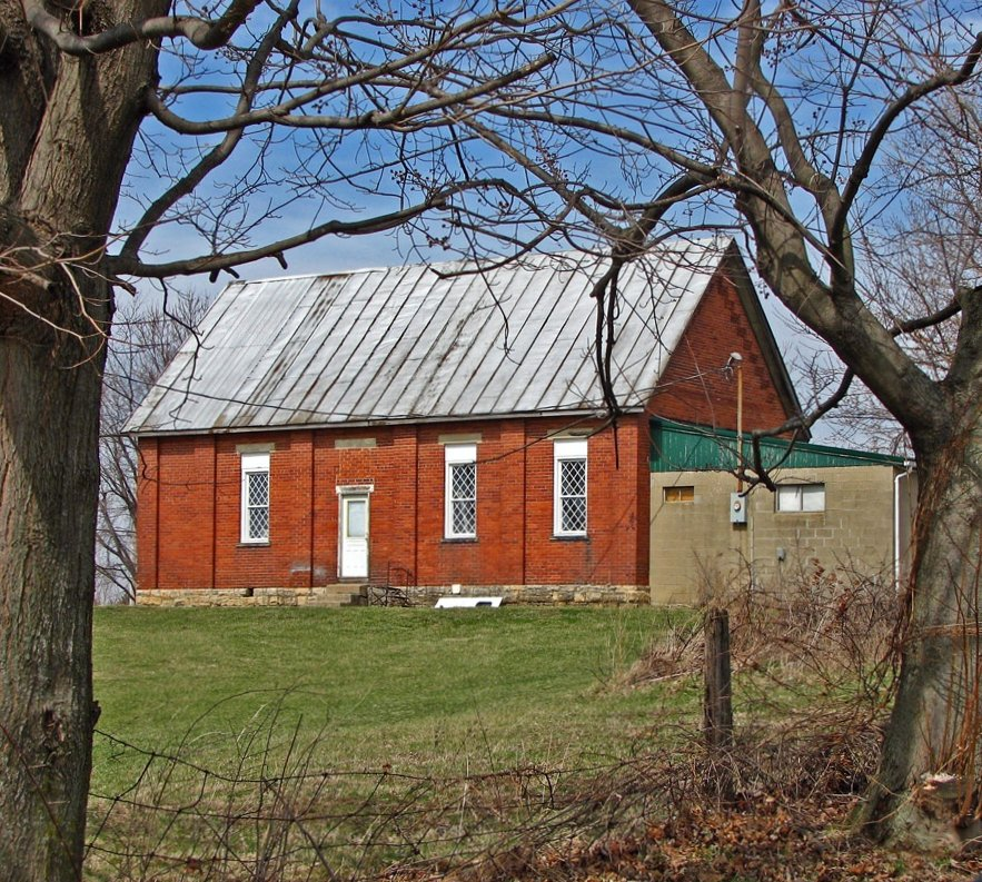 Former schoolhouse (now a house) at Roxabell in central Concord Township, Ross County, Ohio, United States.